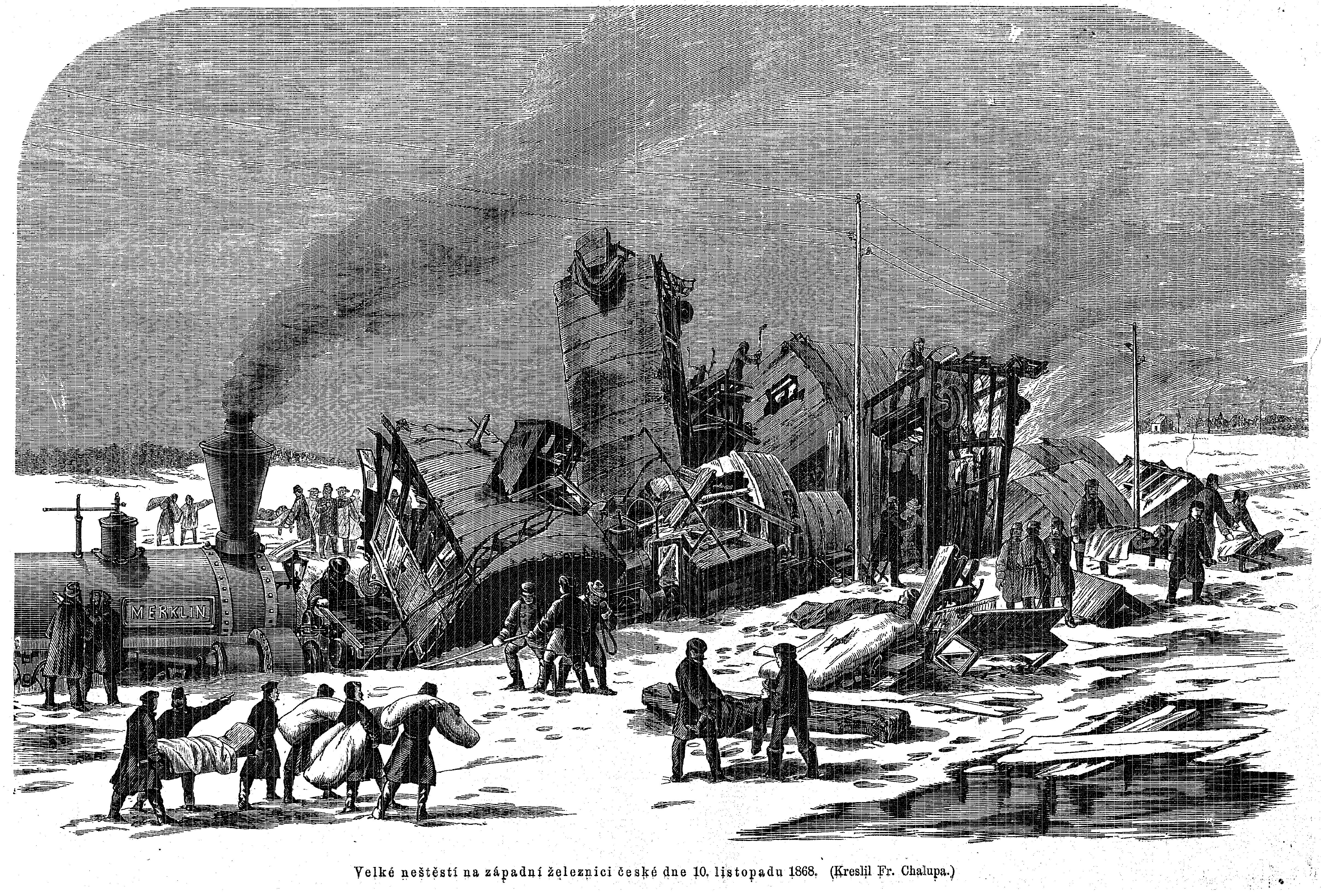 Train crash on Bohemian Western Railroad near the village of Újezd, probably around present-day train stop Cerhovice on the route from Plzeň to Prague. It happened on 10 November 1868 around 6 am. A passenger train carrying Hungarian and Slovak soldiers home from an excercise in Plzeň was stopped by deep snow on the tracks. It was followed by a cargo train loaded by coal that failed to stop and crashed into the passenger train from the back. Four passenger cars were demolished, killing 22 soldiers on the spot and injuring 60 others, 13 of which died later. The 22 first victims were buried in a mass grave at the cemetery in Cerhovice on November 13. Written according to a news article in